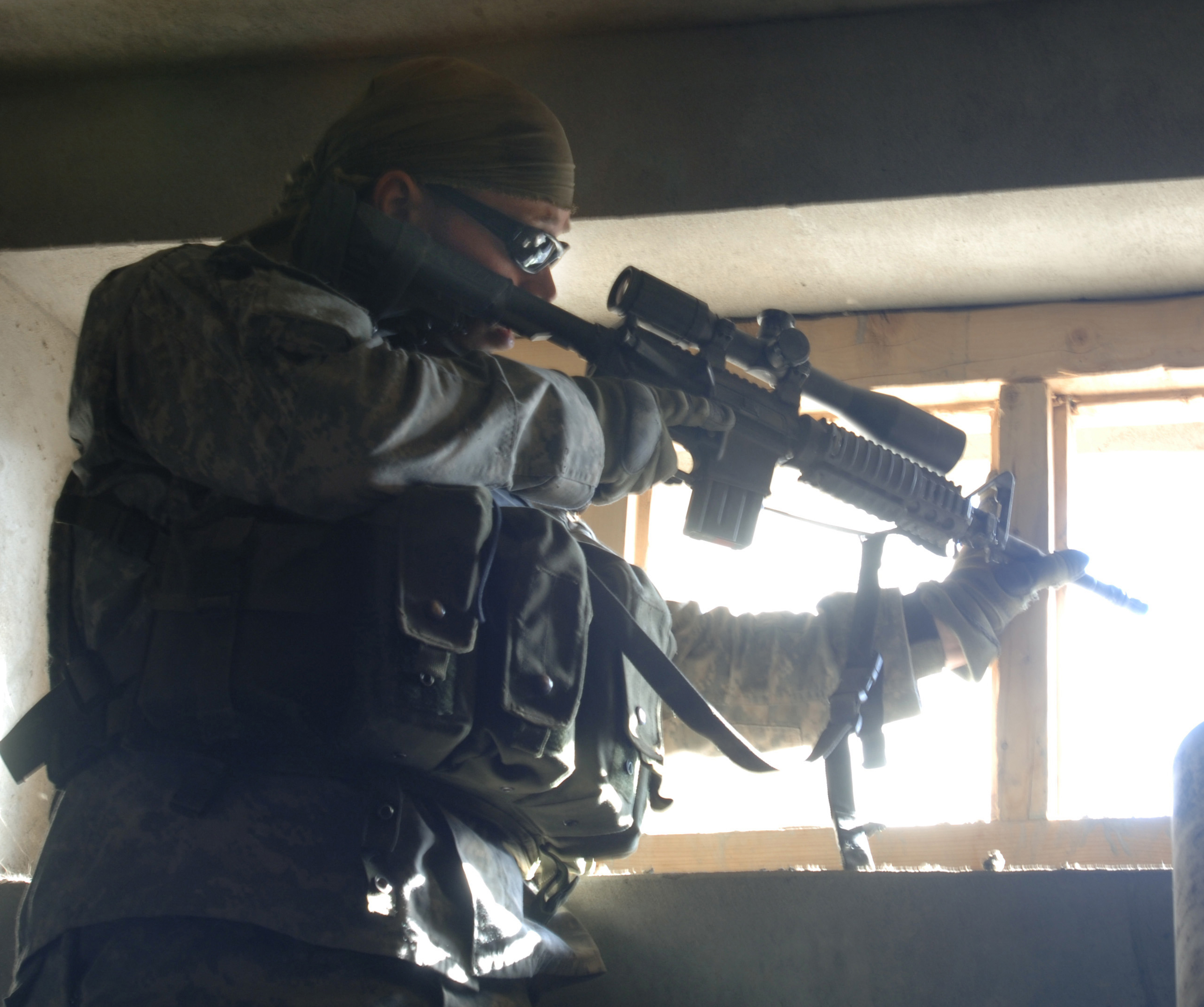 A sniper from the Jalalabad Provincial Reconstruction Team looks for enemy activity along the hilltops near Dur Baba, Afghanistan.